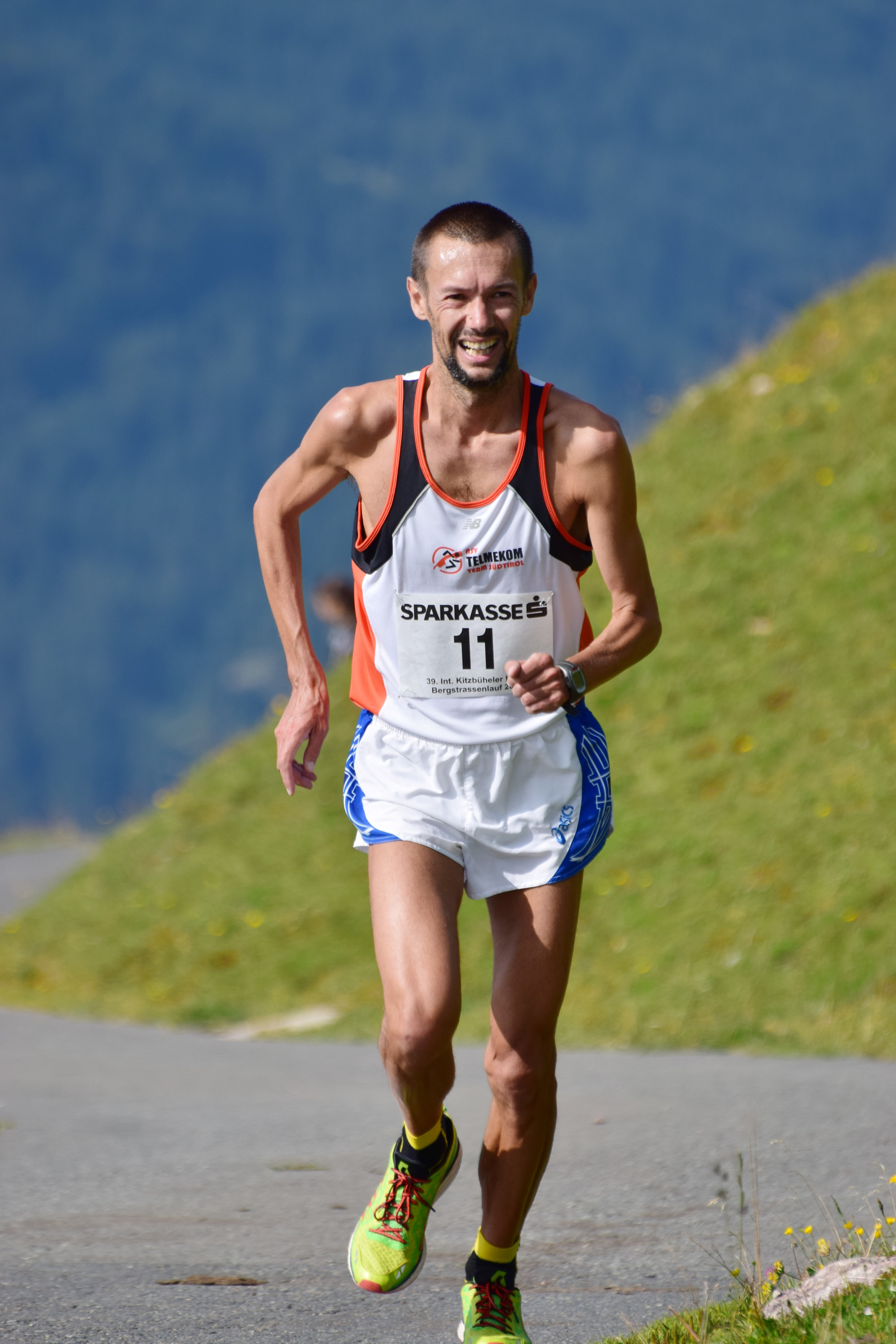 Gerd Frick at 2017 Kitzbüheler Horn Berglauf